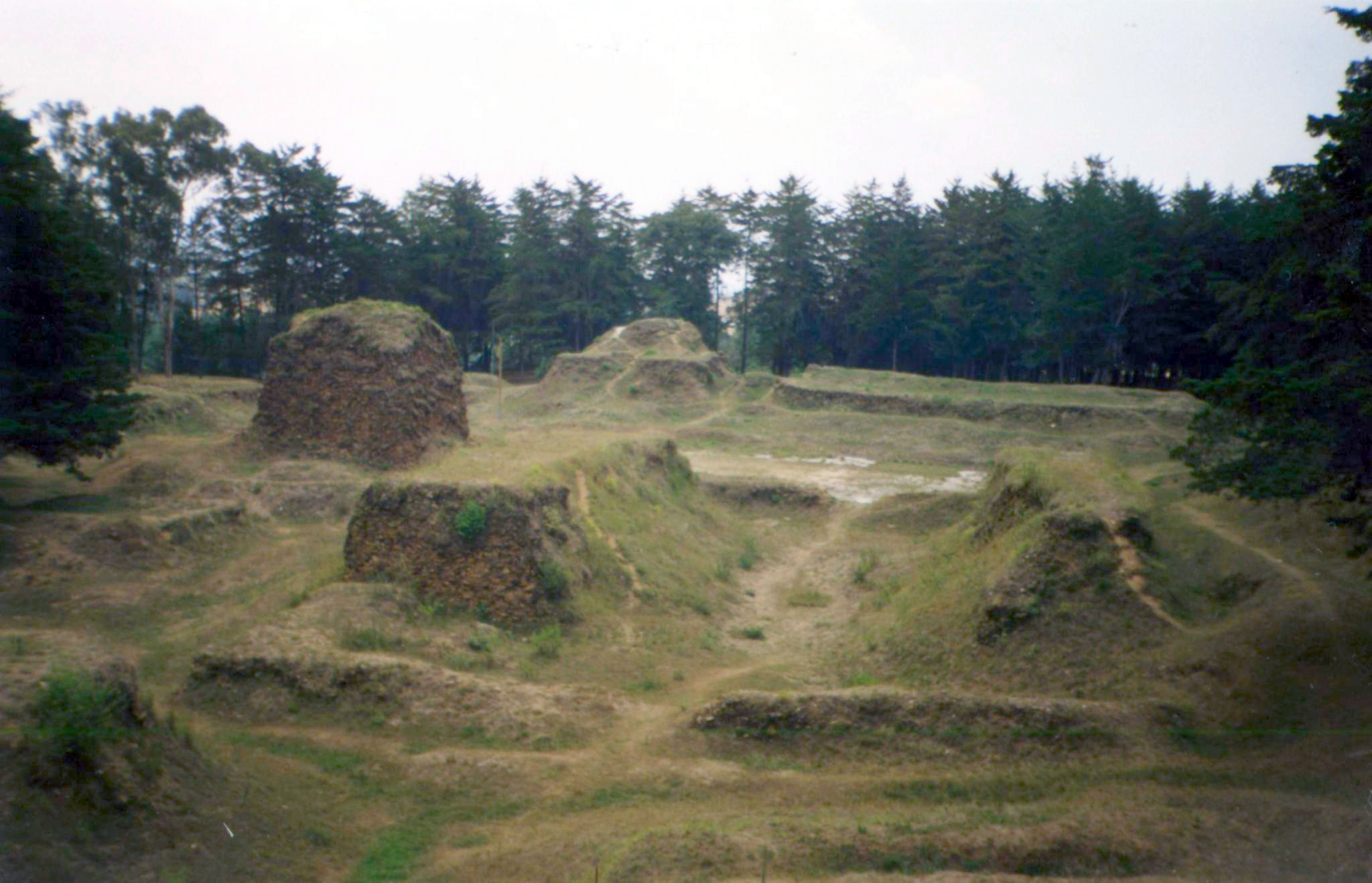 The ballcourt of Gumarkaaj (Utatlan), the Late Postclassic capital of the K'iche' Maya, in the El Quiche department of Guatemala. Two of the main temples of the city are also visible, with the Temple of Tohil at the left and the Temple of Awilix in the background.